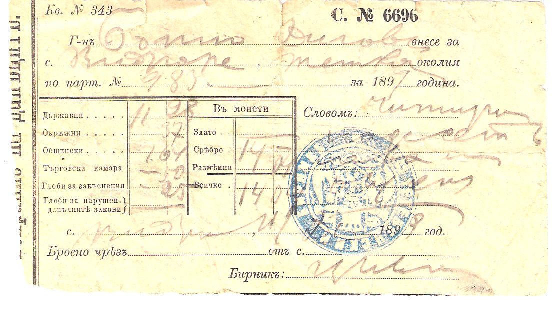 Tax receipts, 1896, Vidrare